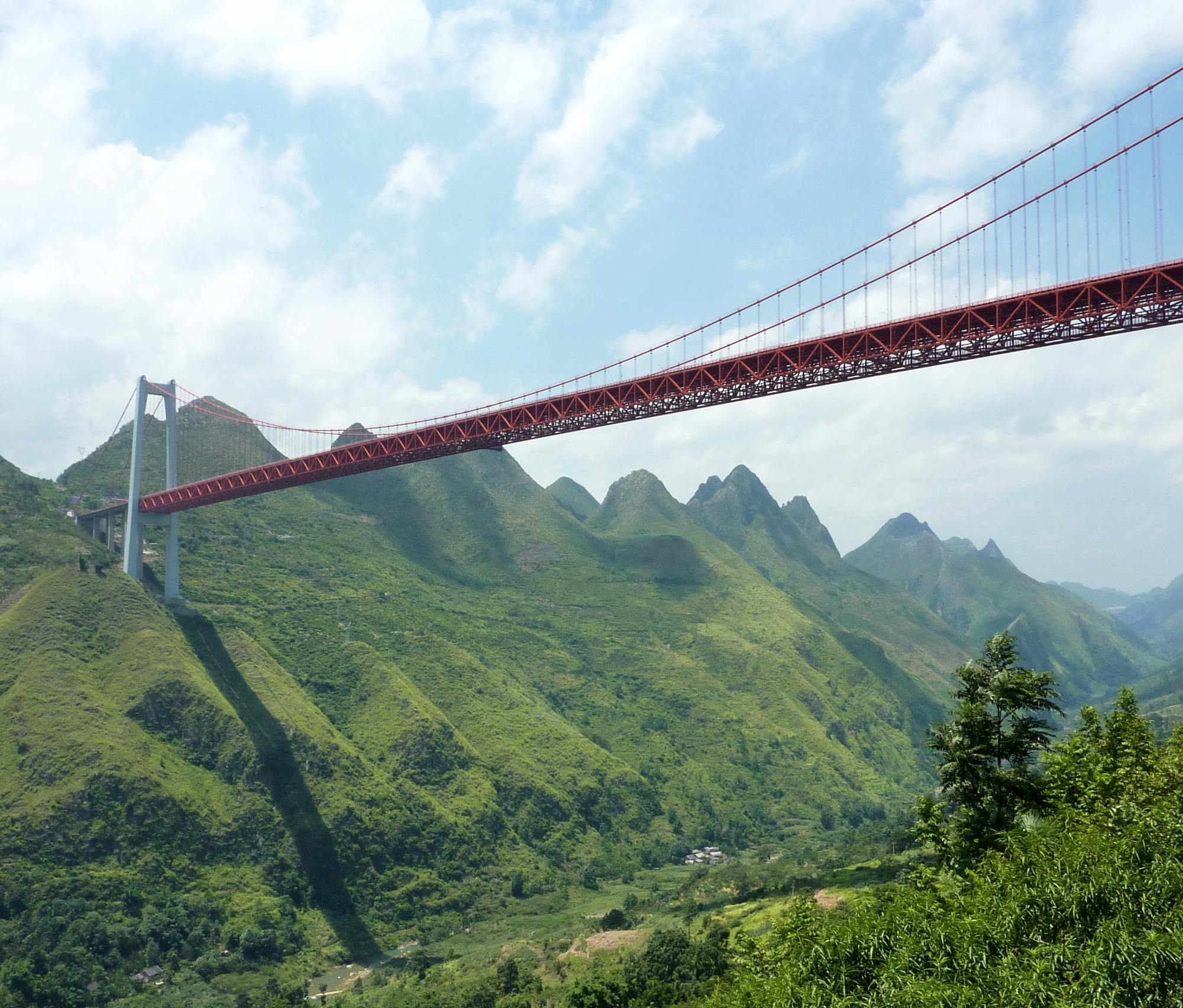 The Balinghe Bridge is a suspension bridge over the Baling River Valley near Guanling City in Guizhou Province of China